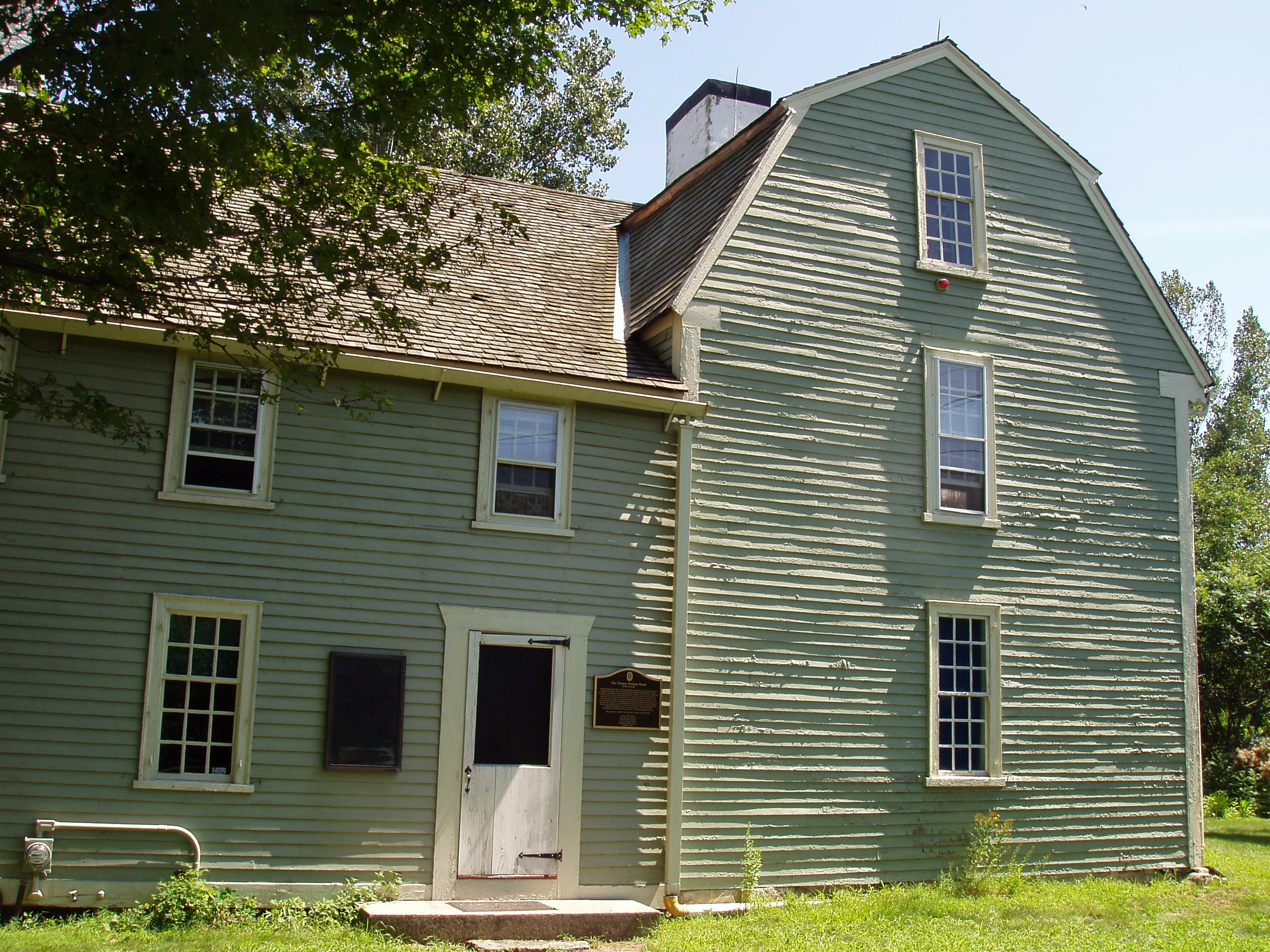 Putnam House, Danvers, Massachusetts, USA - side view.